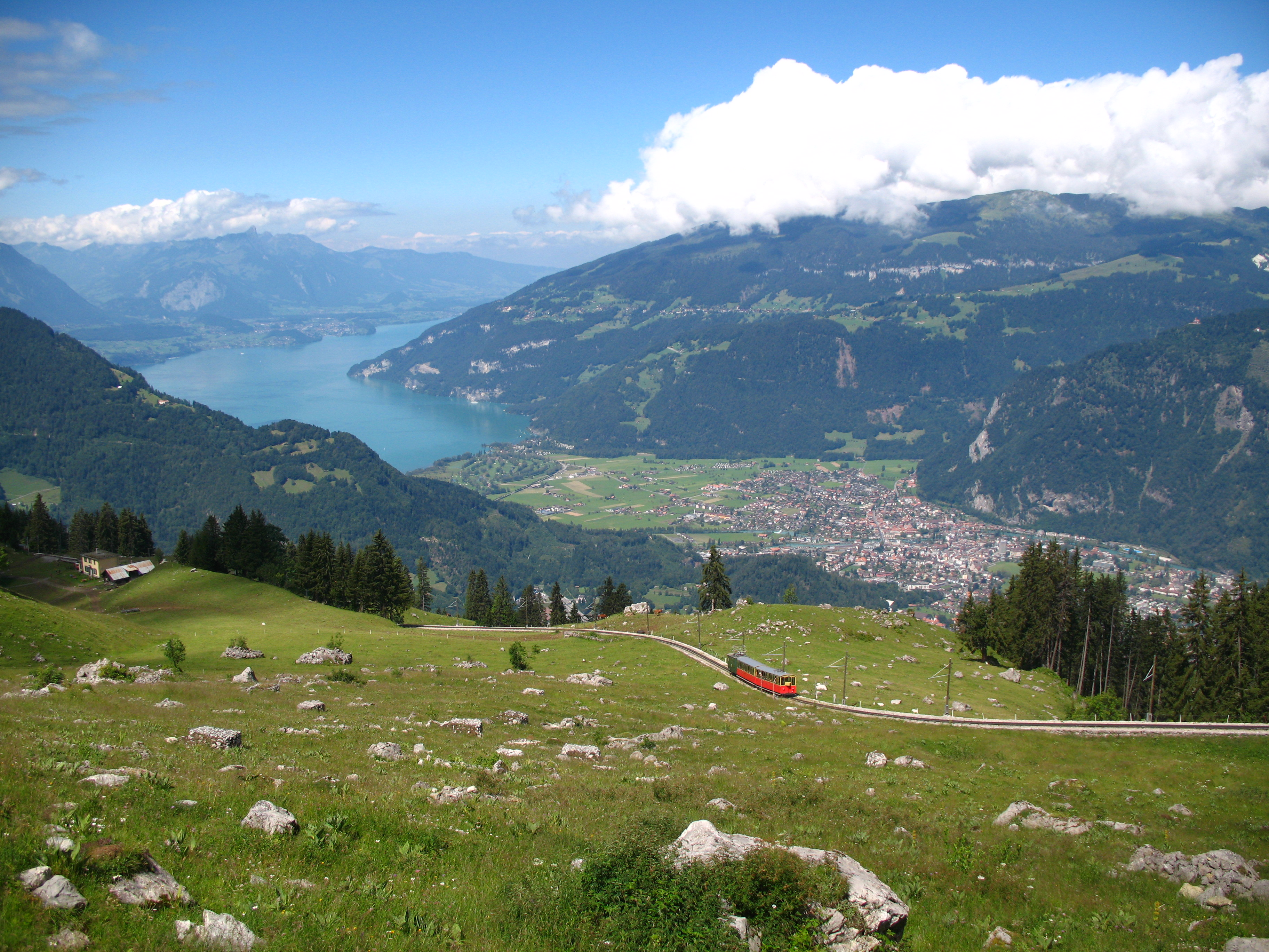 Interlaken, Morgenberghorn, Abendberg, and Lake Thun viewed from the Schynige Platte Railway, Switzerland